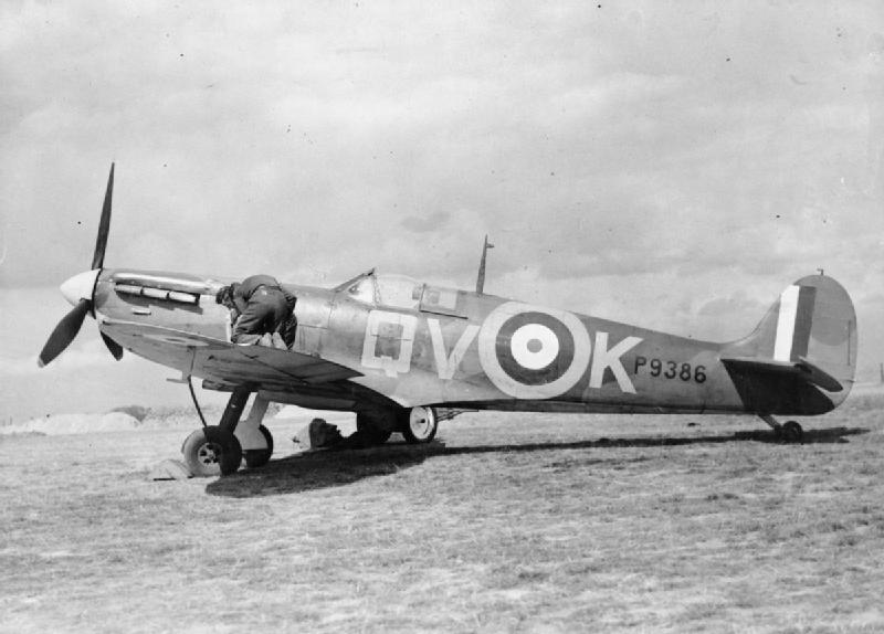 Royal Air Force Fighter Command, 1939-1945. Supermarine Spitfire Mk IA, P9368 'QV-K', of No. 19 Squadron RAF, being rearmed between sorties at Fowlmere, Cambridgeshire. P9368 was often flown by the Commanding Officer, Squadron-Leader B J E 'Sandy' Lane, and was also the preferred aircraft of 'A' Flight commander Flight-Lieutenant W J 'Farmer' Lawson.